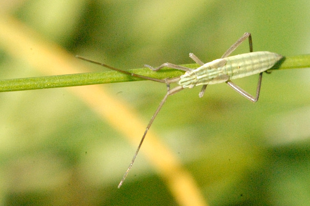 Picture taken in Commanster, Belgian High Ardennes . Species: Stenodema laevigata nymph